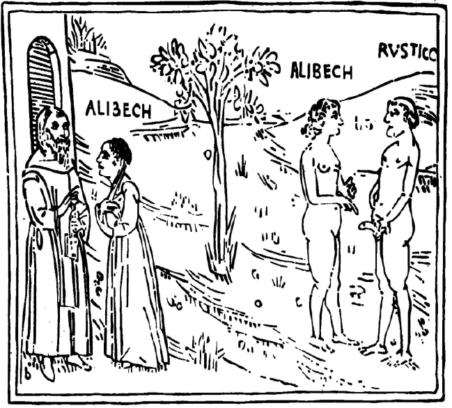 Erotic illustration. Wood-cut.